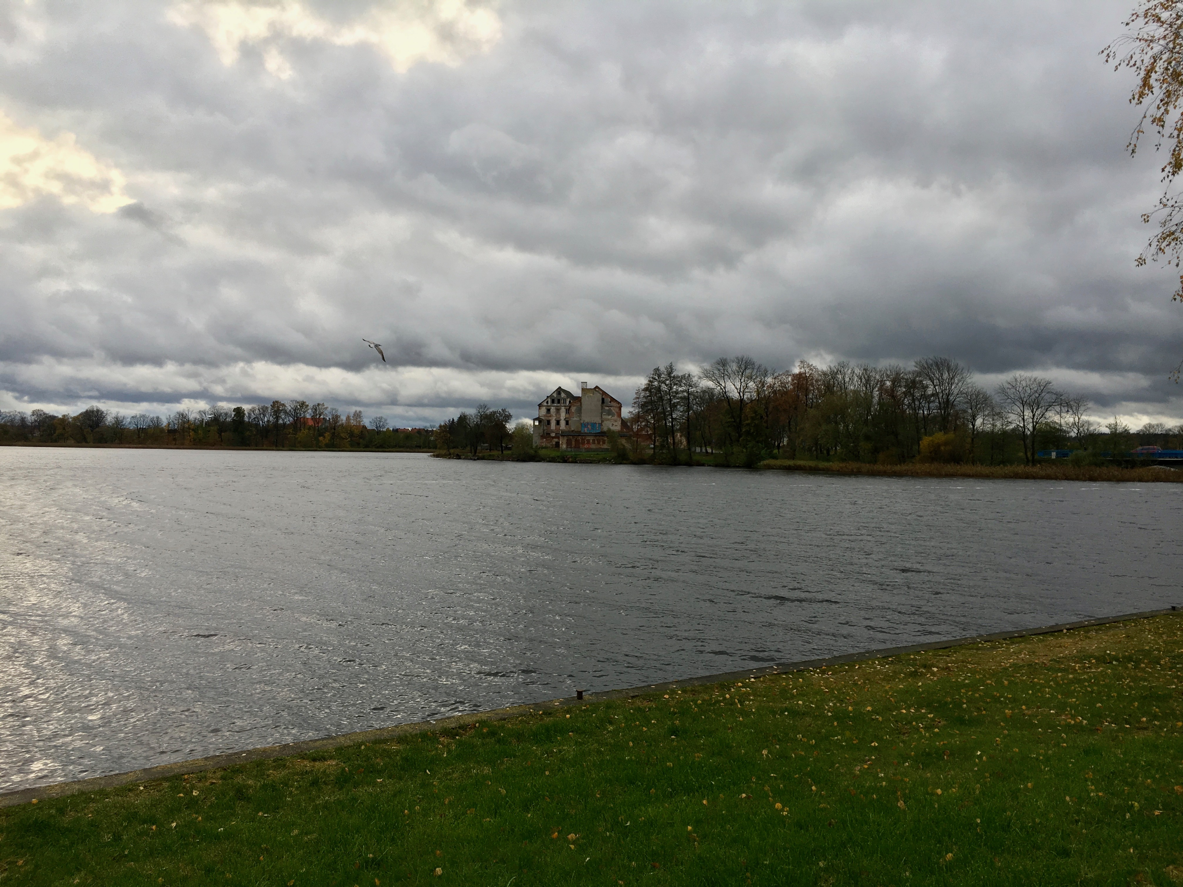 Jezioro Ełckie and Elk Castle